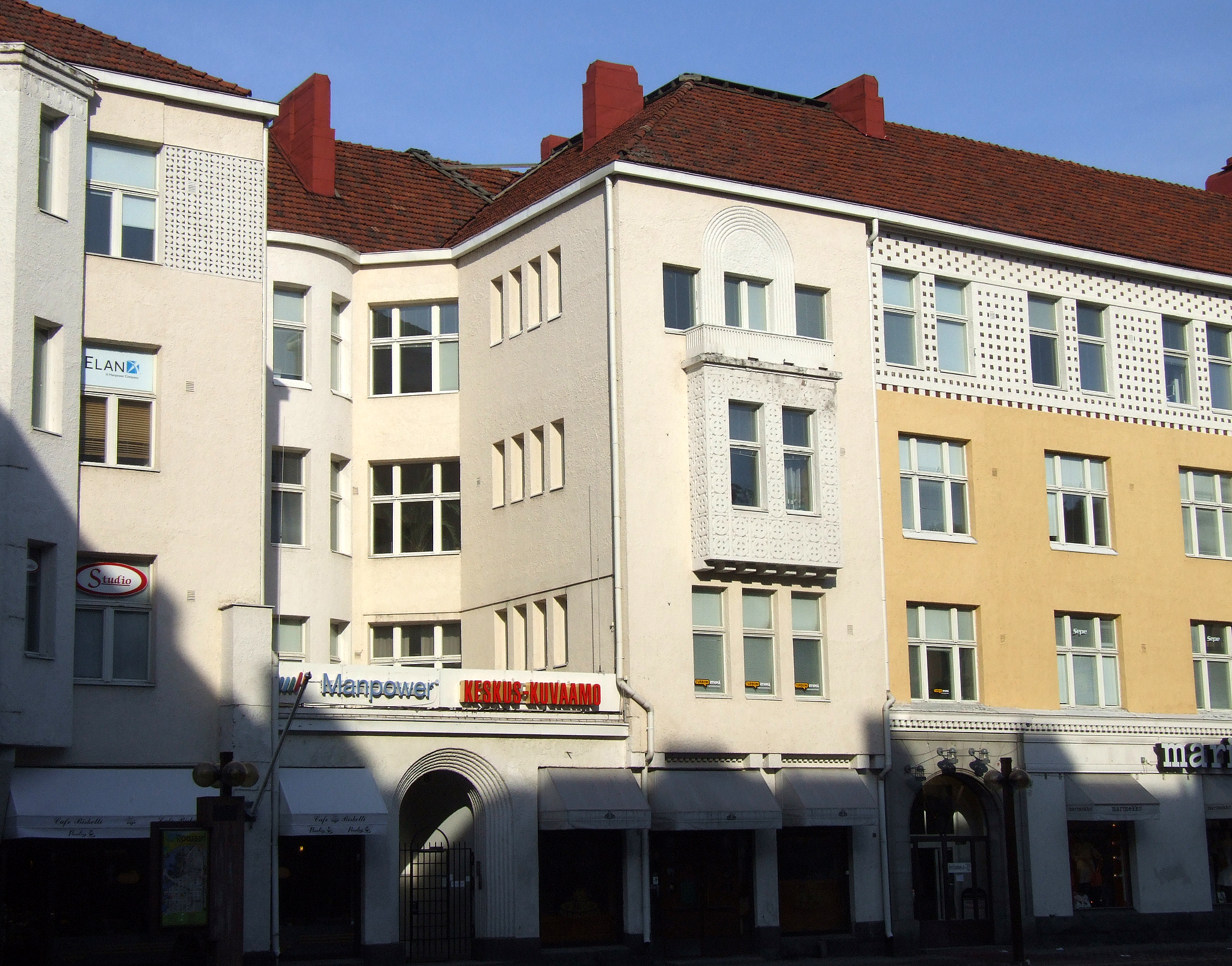 The Pallas house in Oulu, Finland. The house was designed by architect Walter Thomé and it was copmpleted in 1907